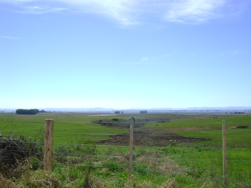 Passo do Verde district - Santa Maria city - Rio Grande do Sul - Brasil